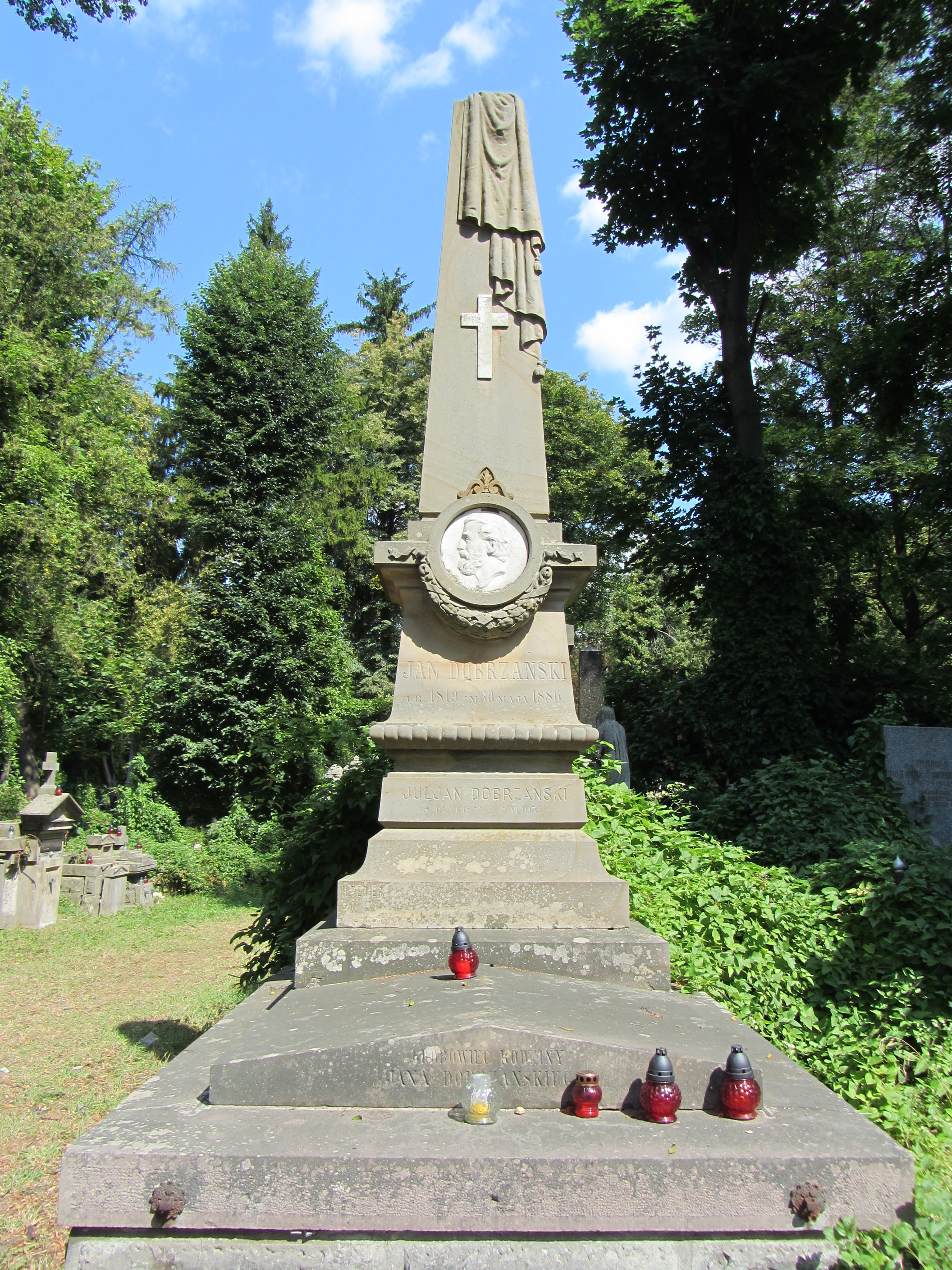 Grobowiec na Cmentarzu Łyczakowskim we Lwowie